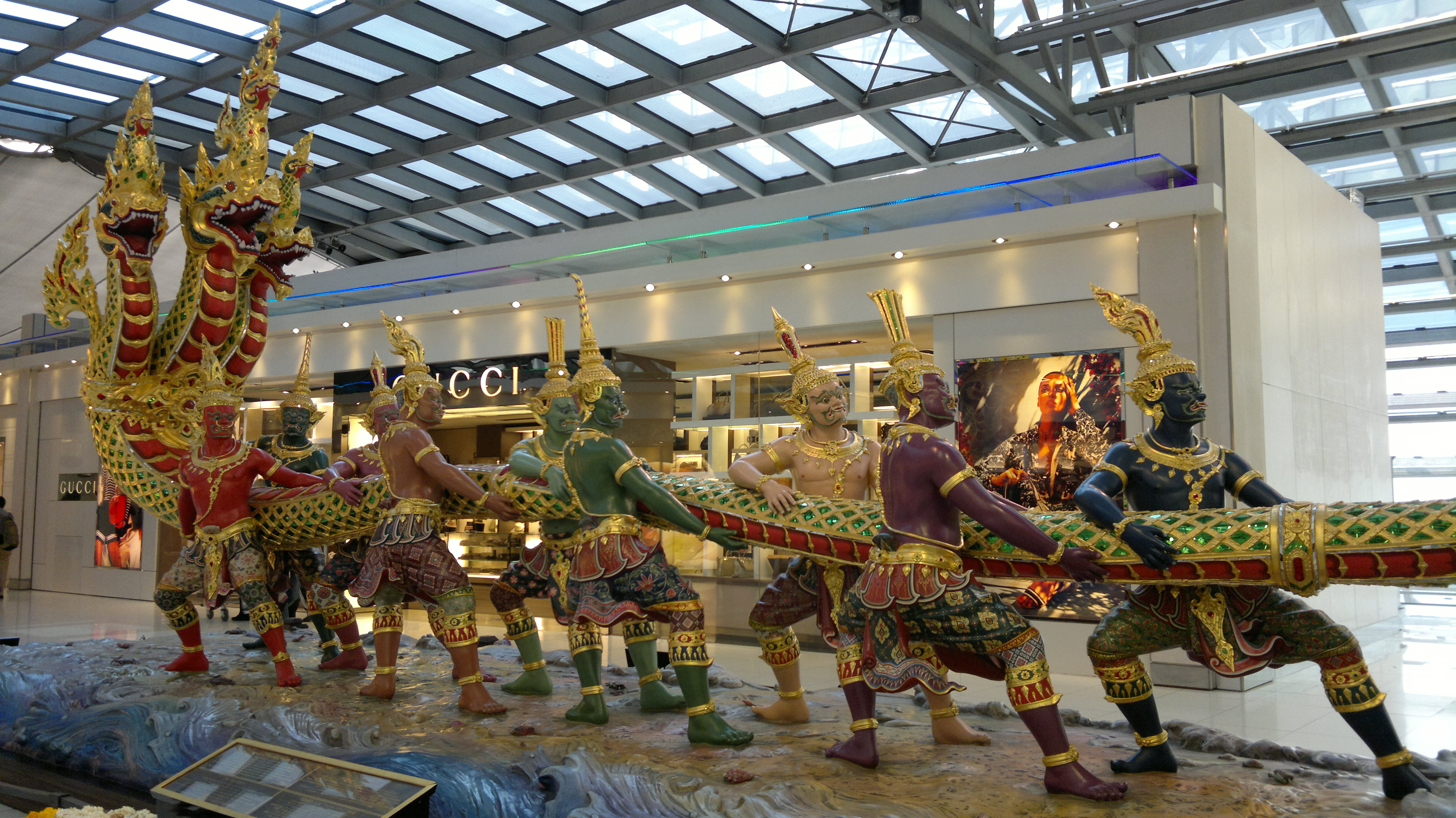 Suvarnabhumi International Airport tug-of-war art